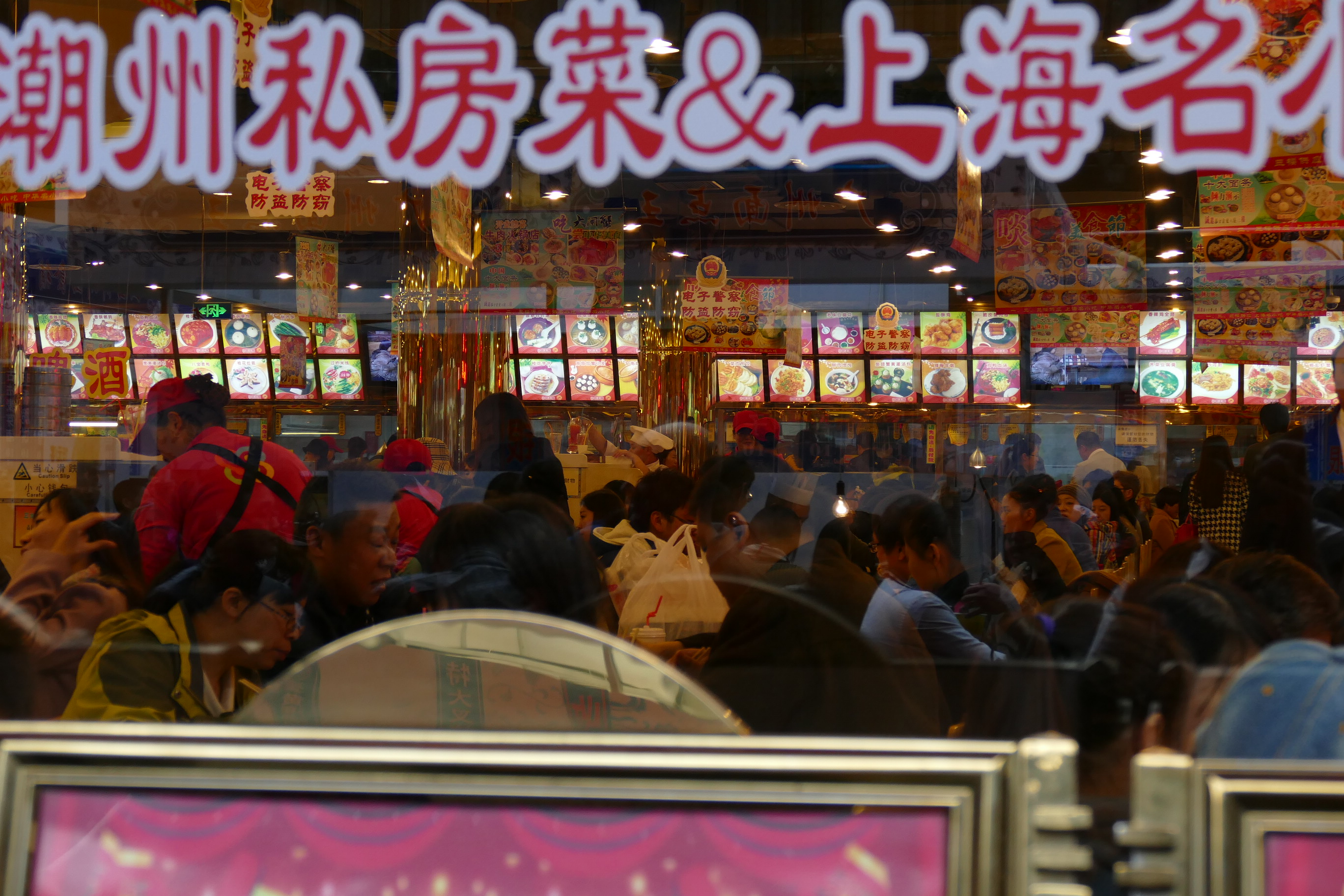 Restaurant at Yuyuan Tourist Mart - Shanghai, China, 16.22.2014